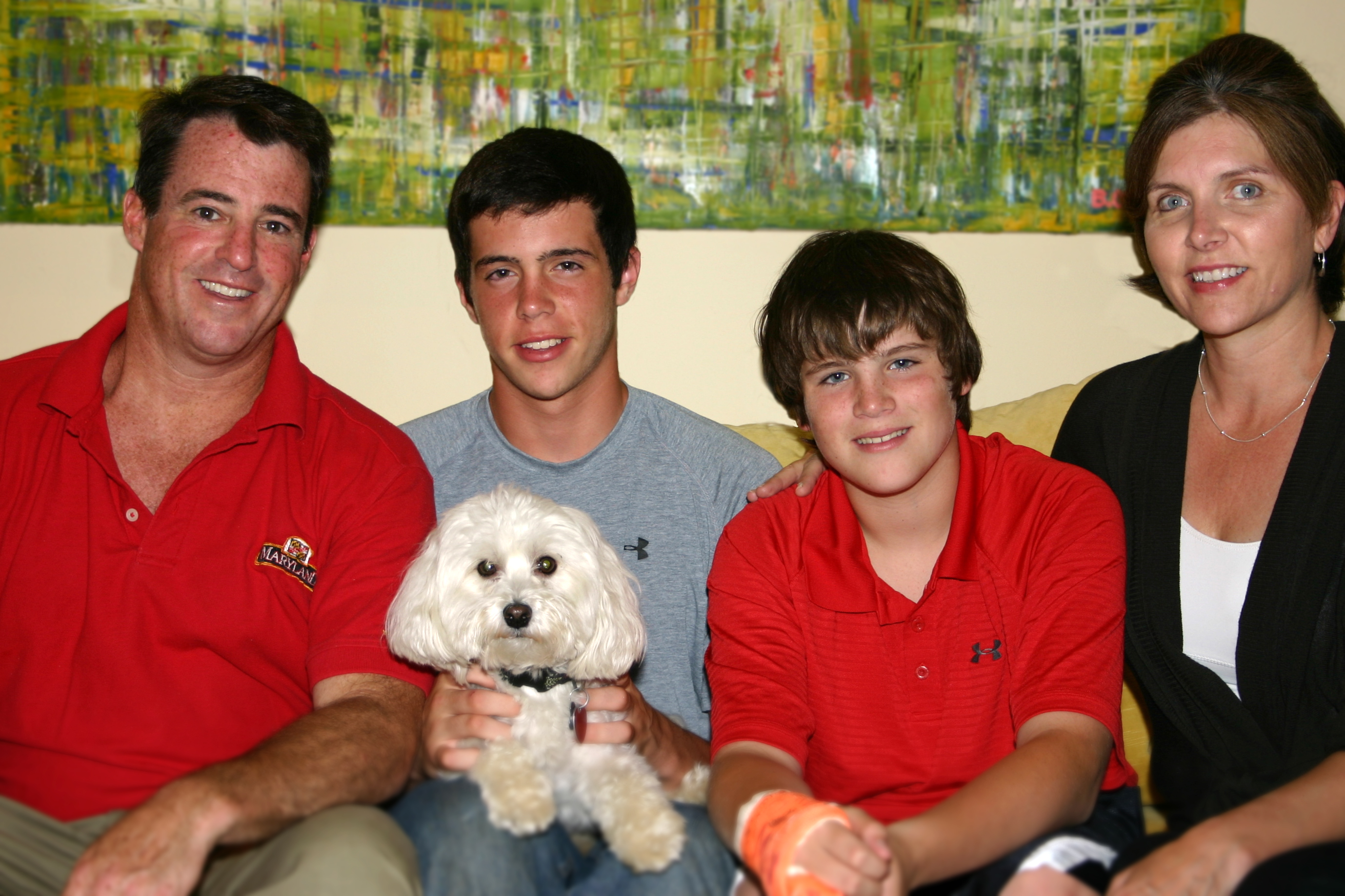 Attorney General Gansler with his sons Sam and Will, and his wife Laura, at home in Bethesda, Maryland.